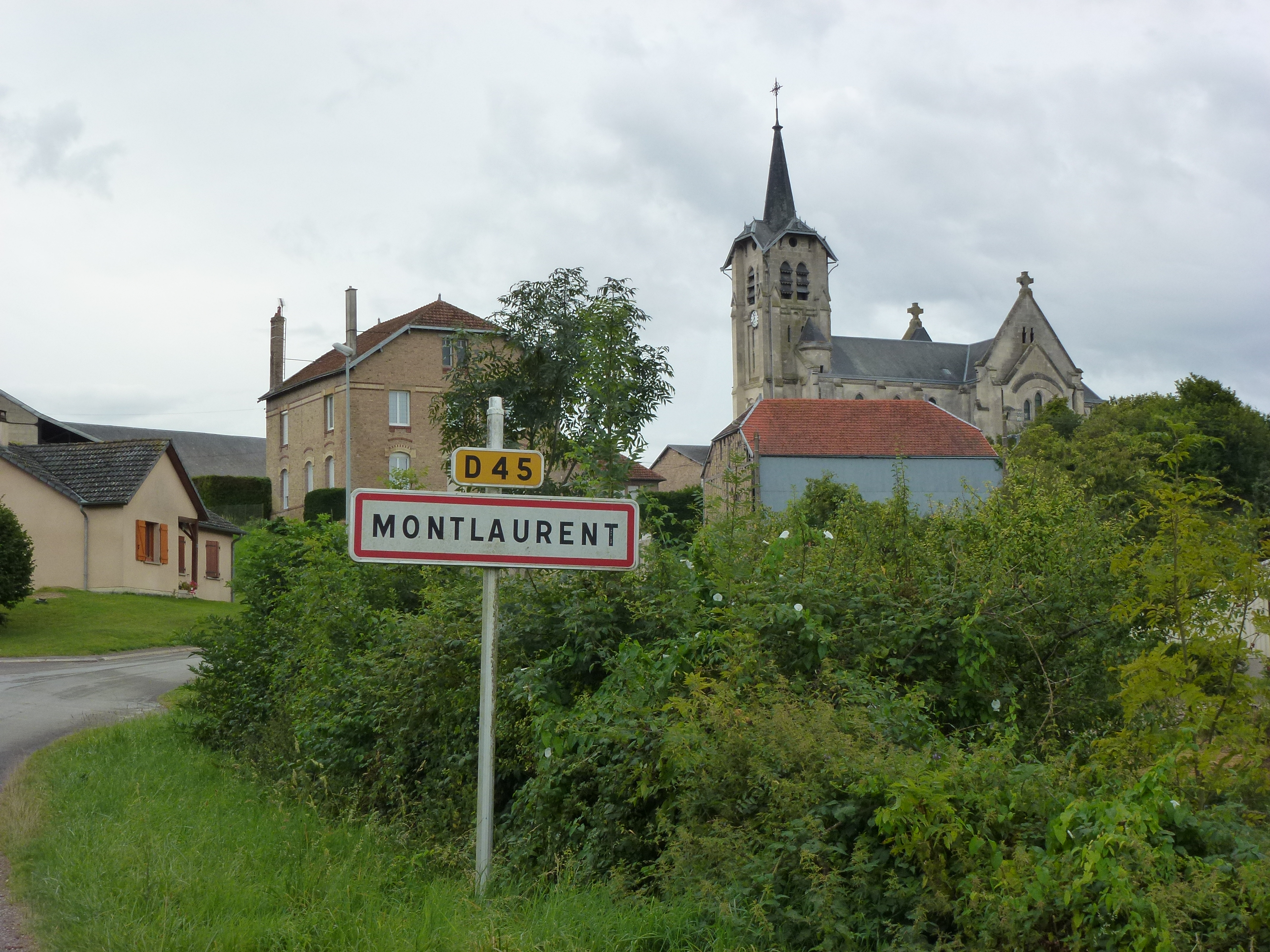 Mont-Laurent (Ardennes) city limit sign and church